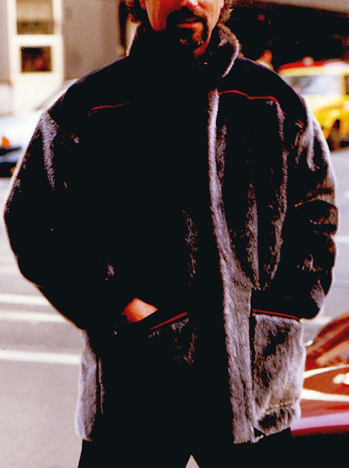 Greenland Sealskin jacket, Olympia Albertville 1992, Danmark